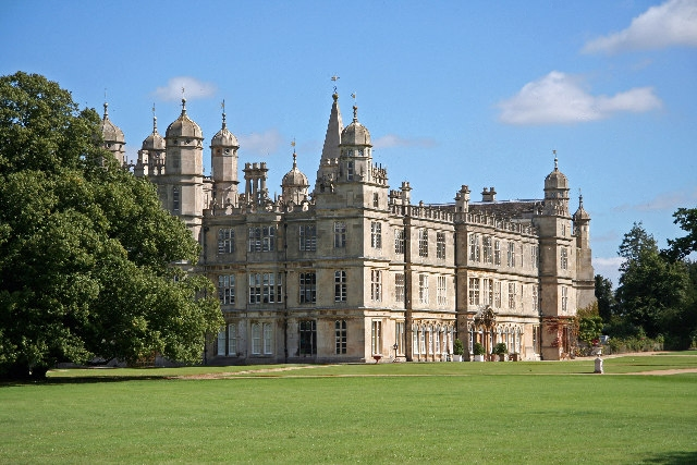 Burghley House in Cambridgeshire, south-western aspect